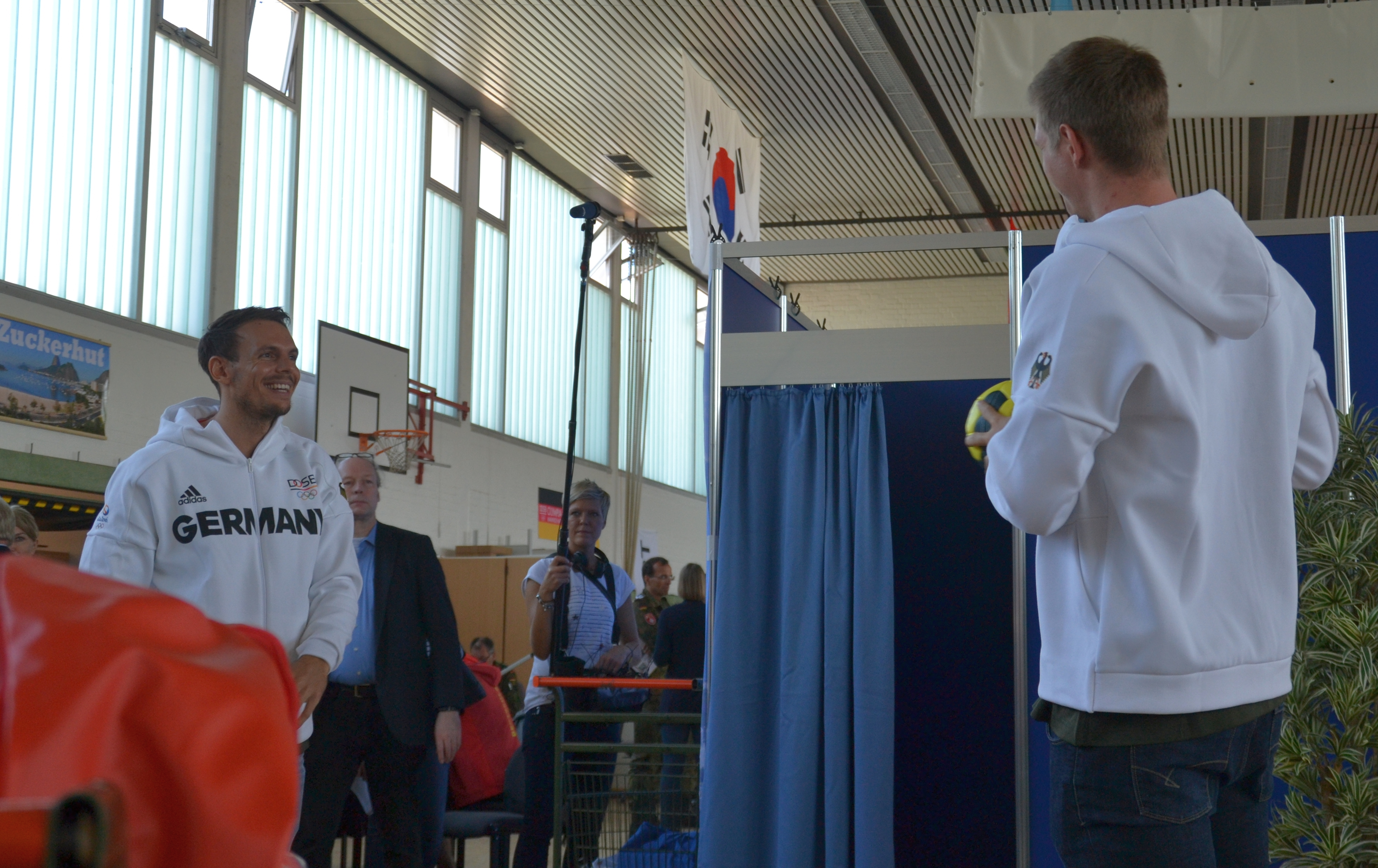 Media day of the clothing of the German Olympic team for Rio 2016 in the Emmich-Cambrai-Kaserne in Hanover. Pictured persons see Categories.